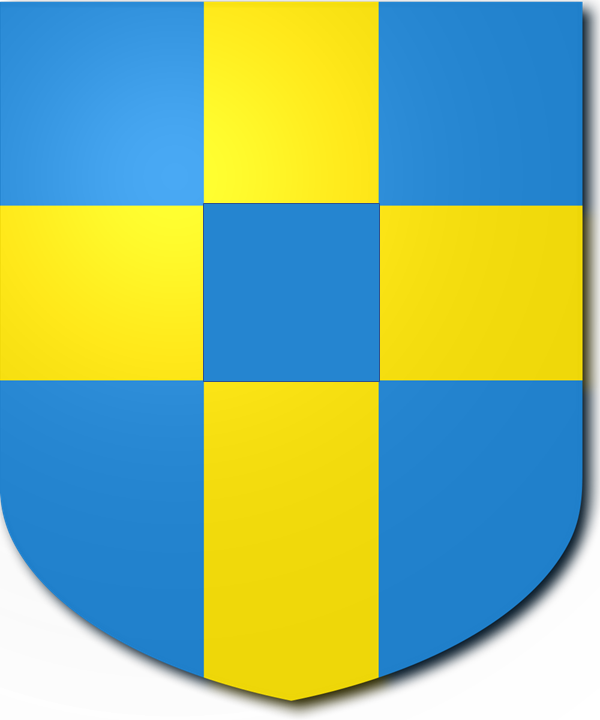 selvo family coat of arms